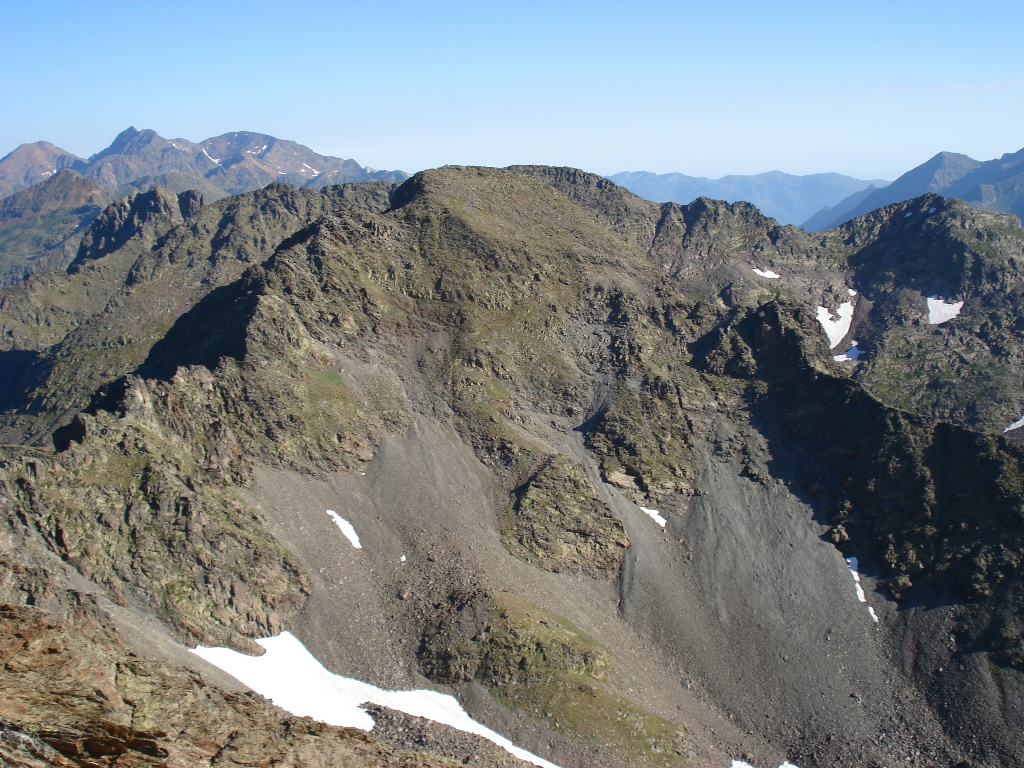 Roca Entravessada from the top of Comapedrosa